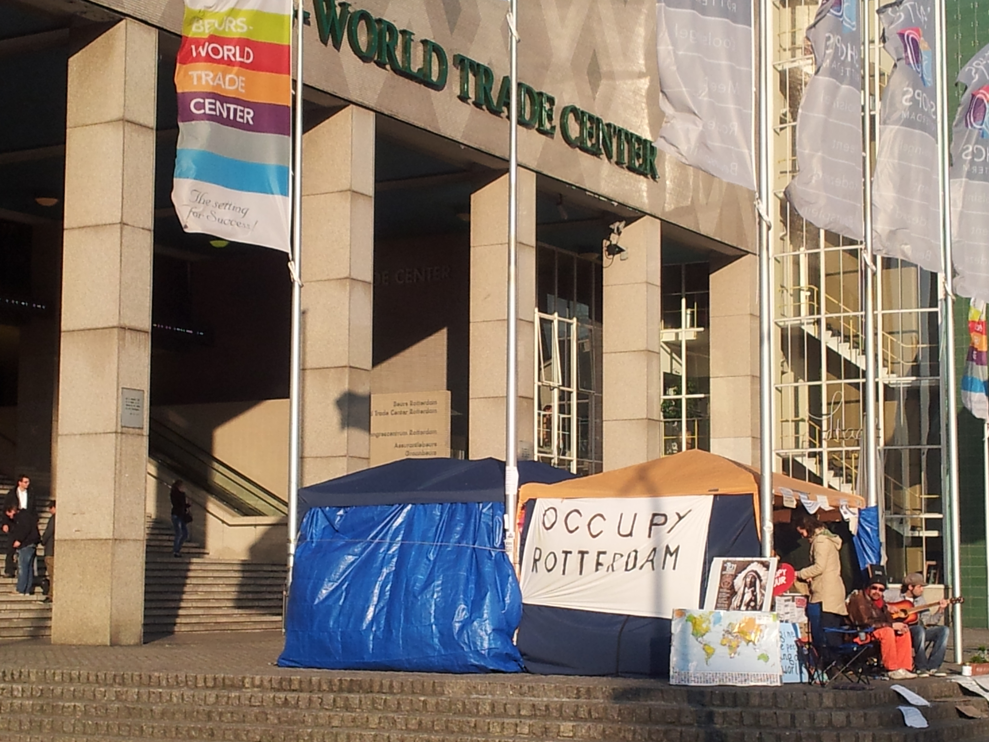 Occupy Rotterdam 2011-11-11